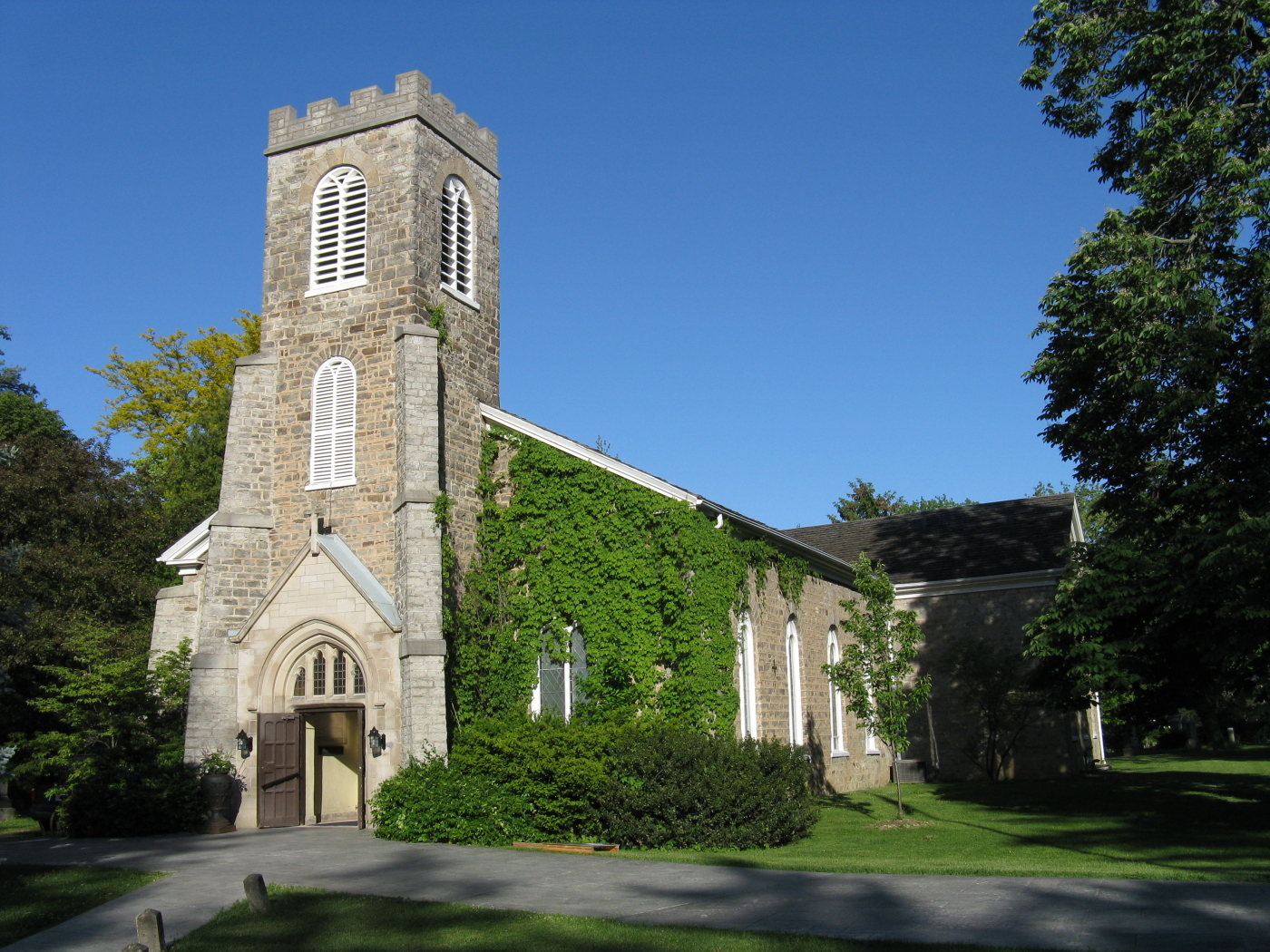 St. Mark's Anglican church in Niagara-on-the-Lake, Ontario. Begun 1804, completed 1810, rebuilt 1822.